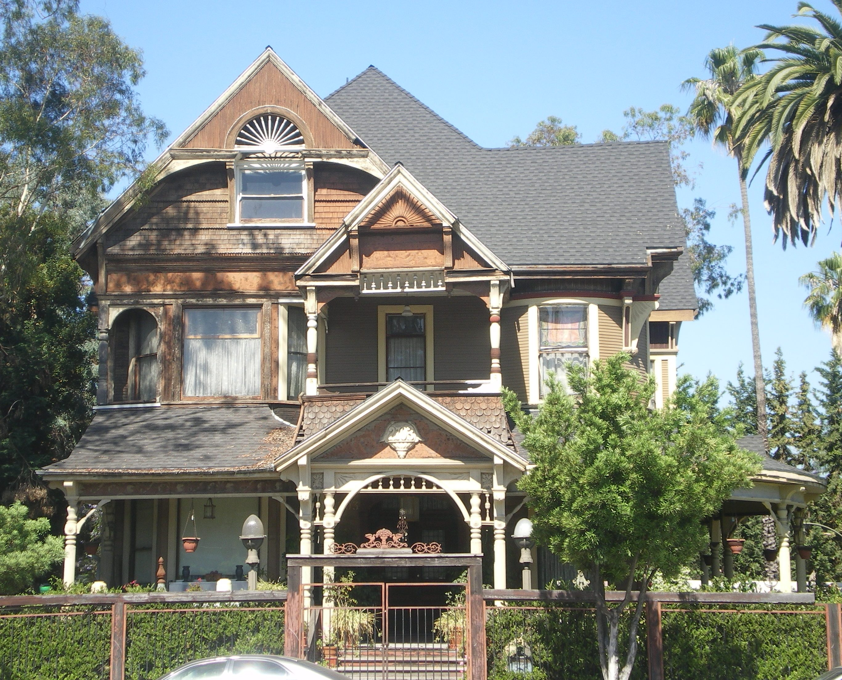 House at 2703 S. Hoover, Los Angeles, California (N. University Park Historical District)